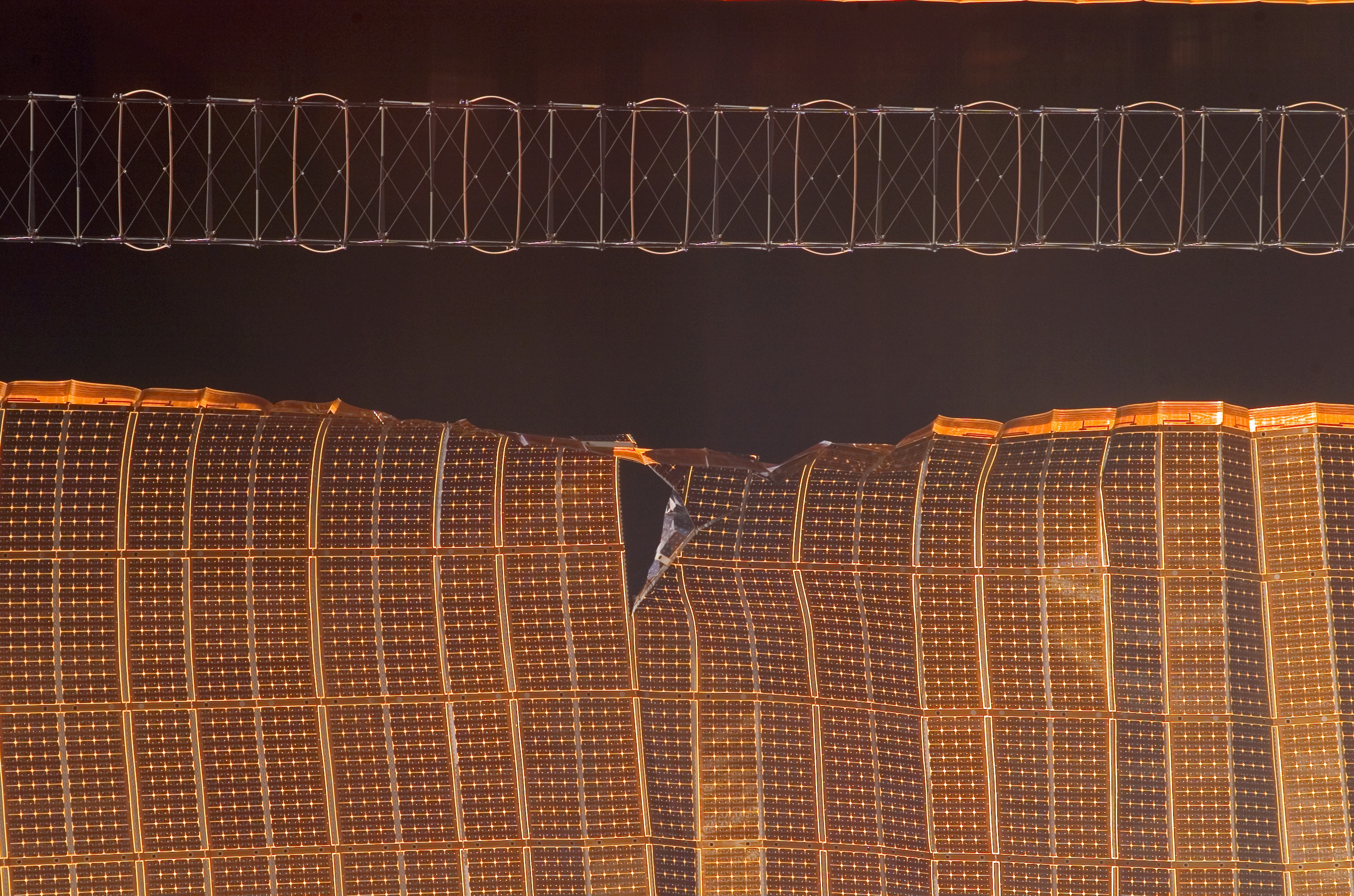 Tear in the SAW 4B of ISS A view of a damaged P6 4B solar array wing on the International Space Station. NASA halted the deployment – which is about 80 percent complete – to evaluate the damage.